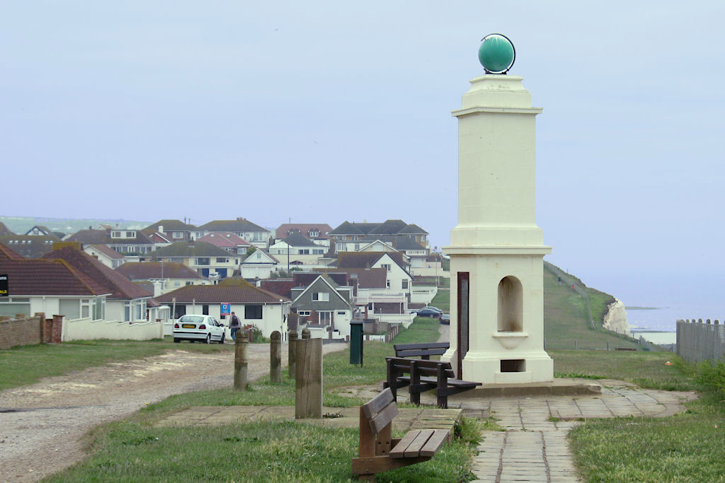 Meridian marker at Peacehaven, East Sussex